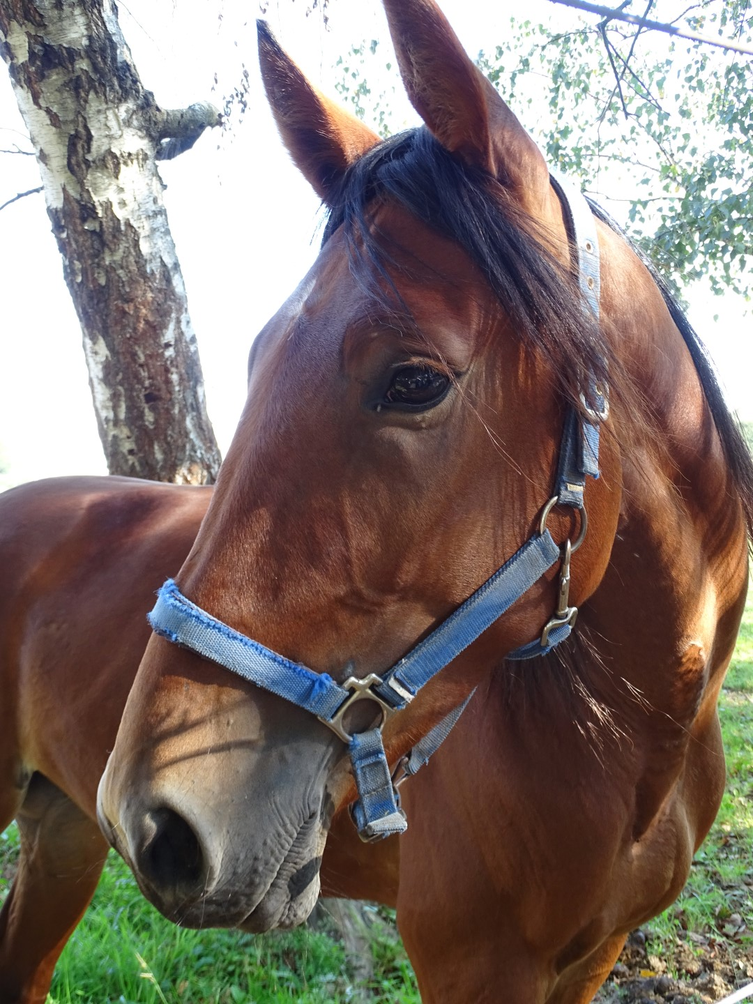 Trotter